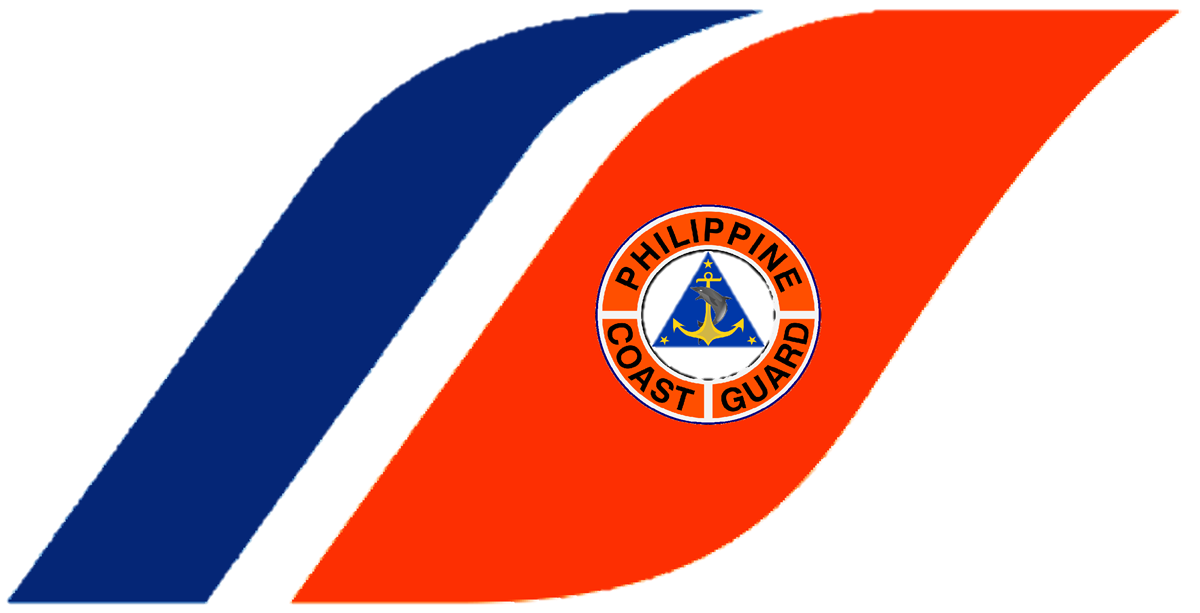 Philippine Coast Guard Racing Stripe